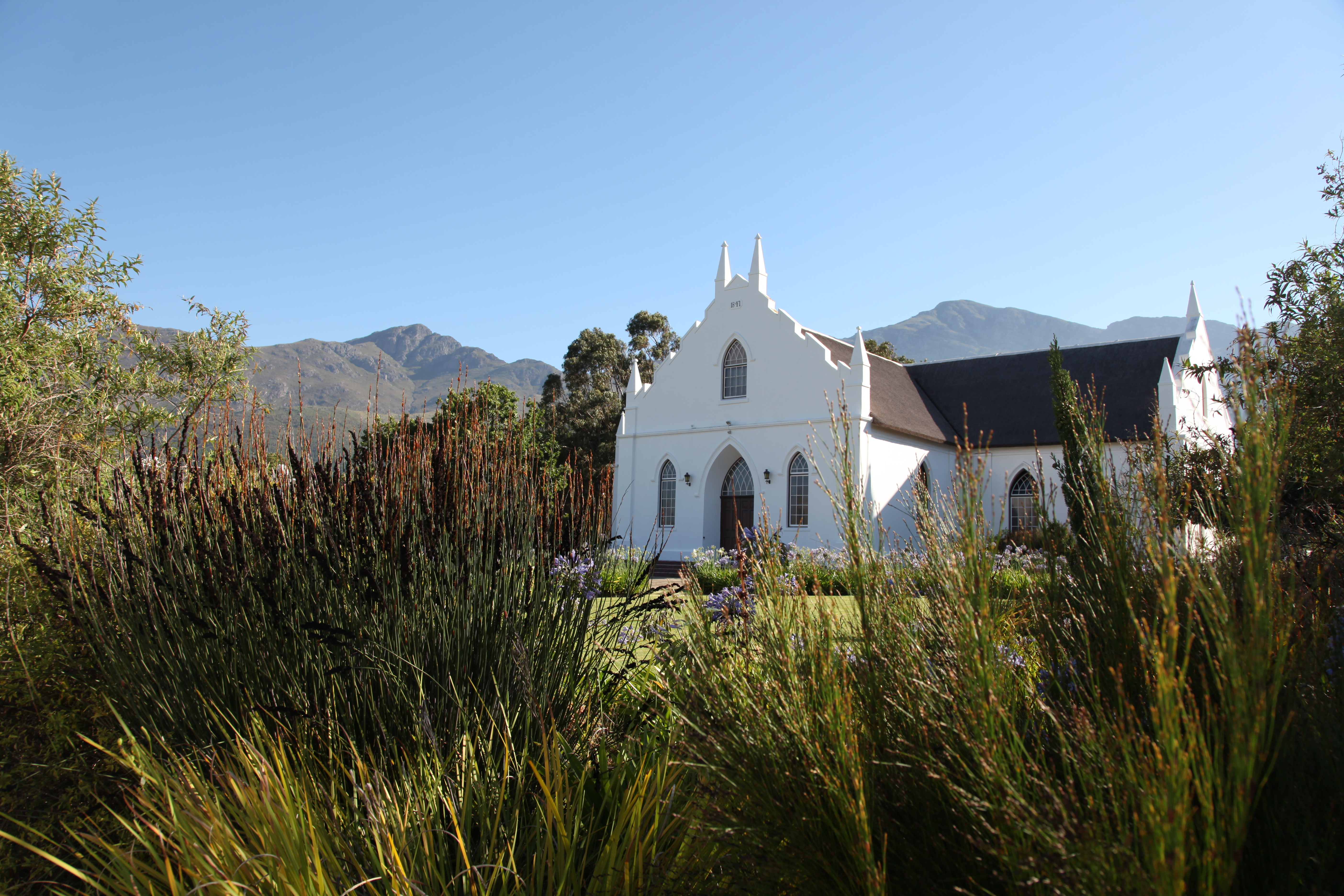 The Dutch Reformed Church building in Franschhoek was completed in 1847 with transepts added in 1881. This media shows a South African Protected Site with SAHRA file reference 9/2/069/0044.